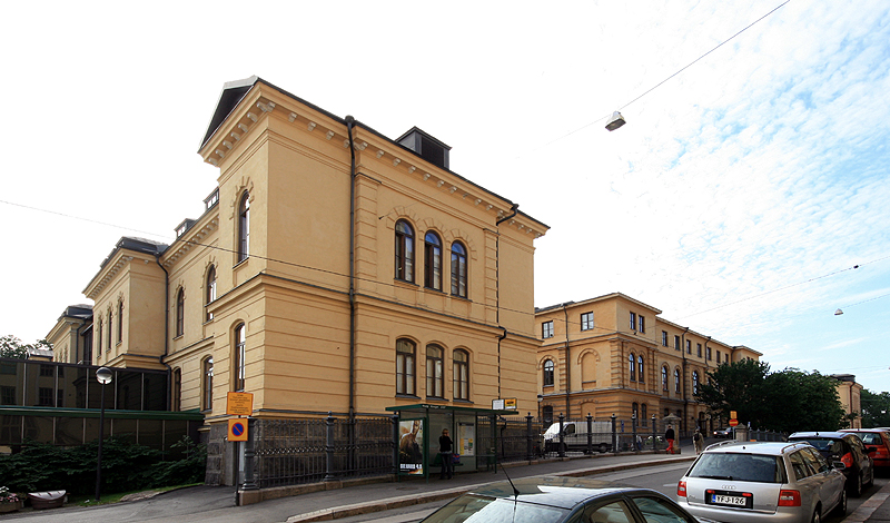 Surgical Hospital, Helsinki. Architects: Helge Rancken, Ludvig Bohnstedt, F.A. Sjöström, Sigismund Ringier. Built 1888.